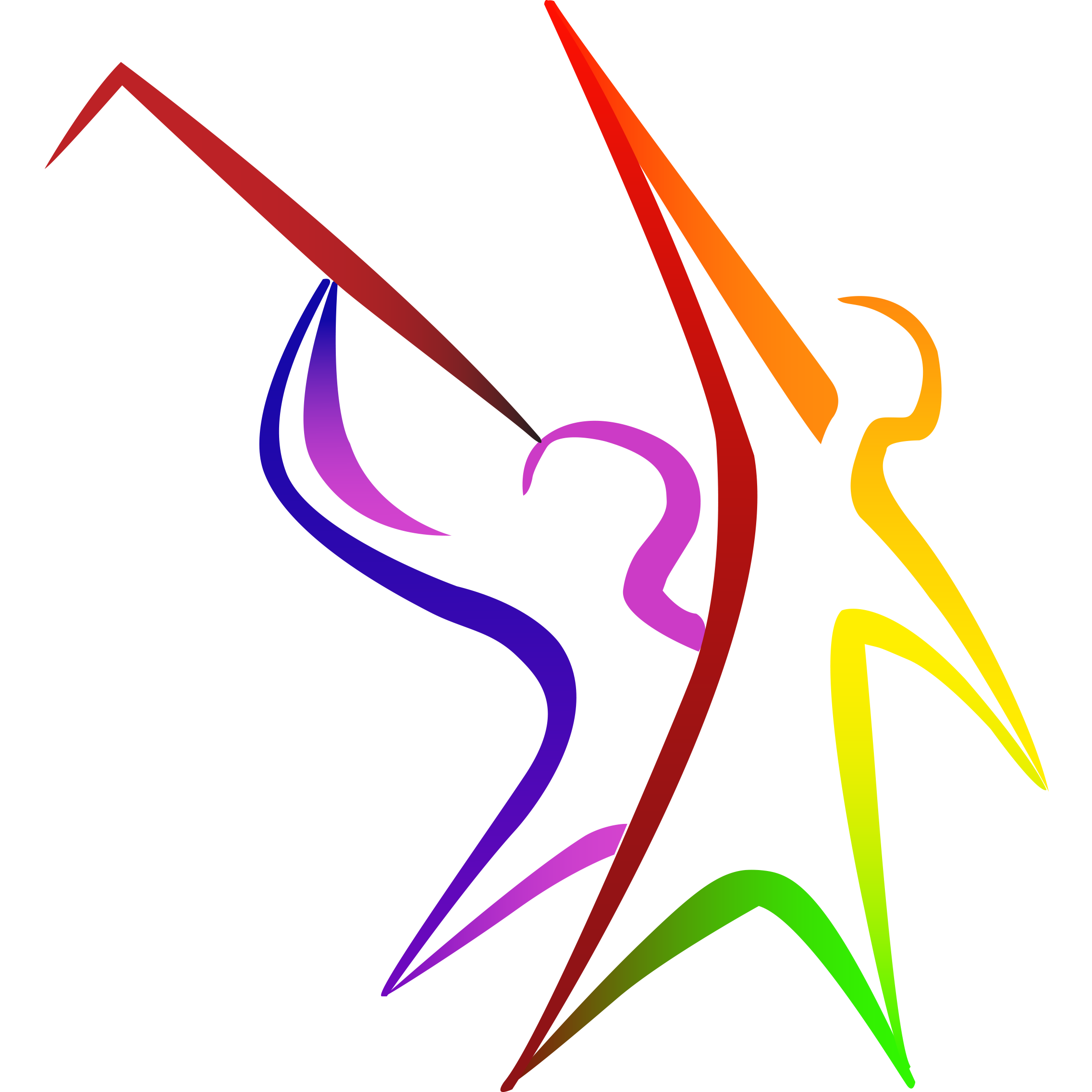 This is the official registered event logo of the Star Party annual astronomical observation competition.